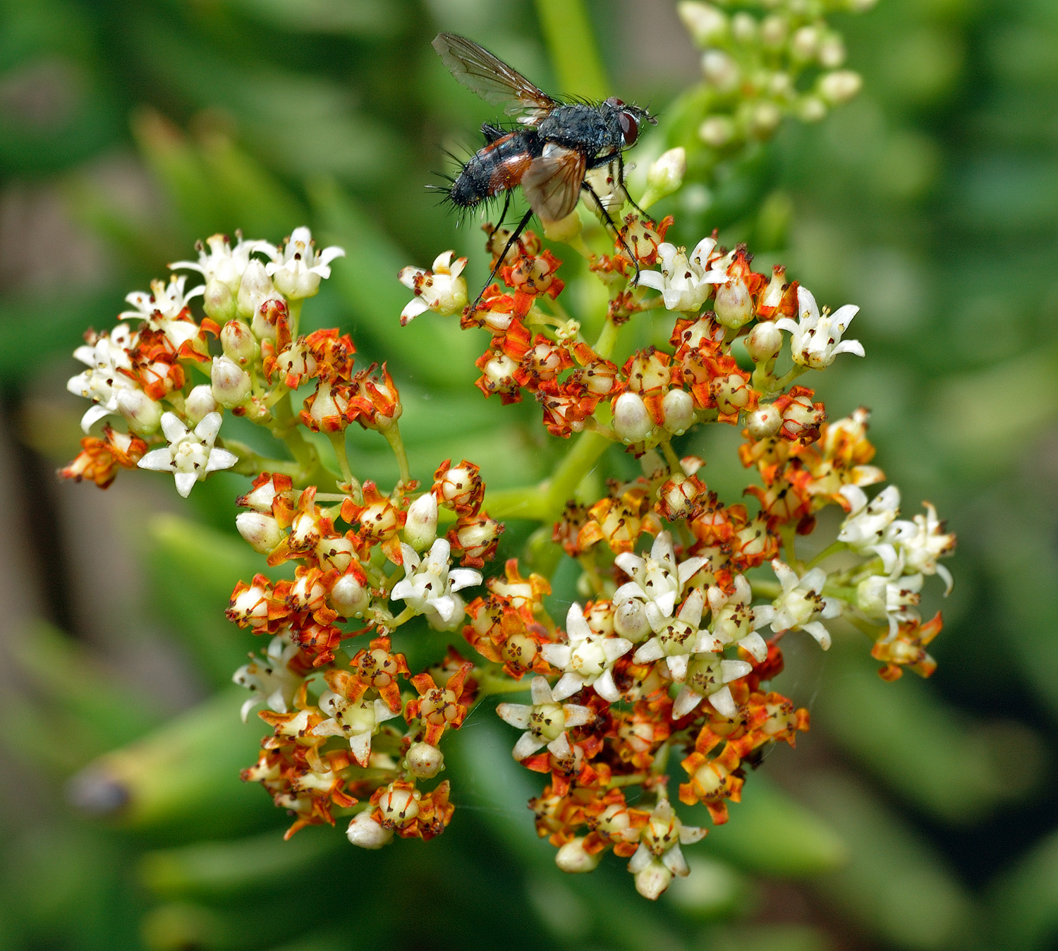 This image shows a few blossoms of a plant of the species Crassula tetragona.